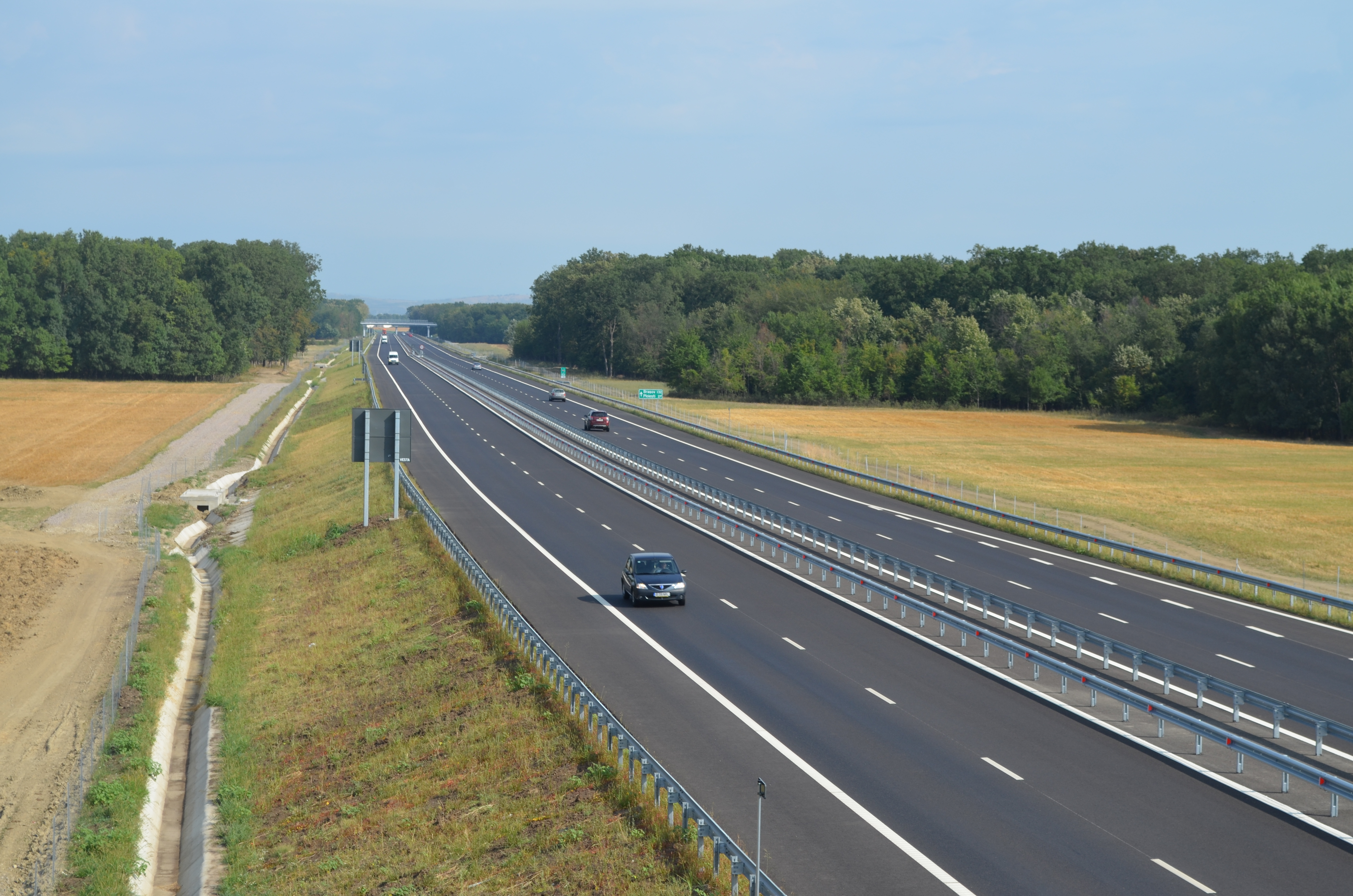 A3 Highway (Bucharest-Ploiesti), near km 49Română: Autostrada A3 (București-Ploiești), în apropiere de km 49